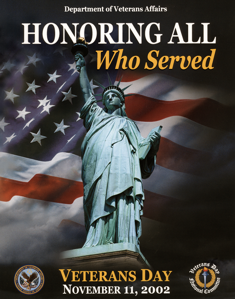 Veterans Day poster for 2002.